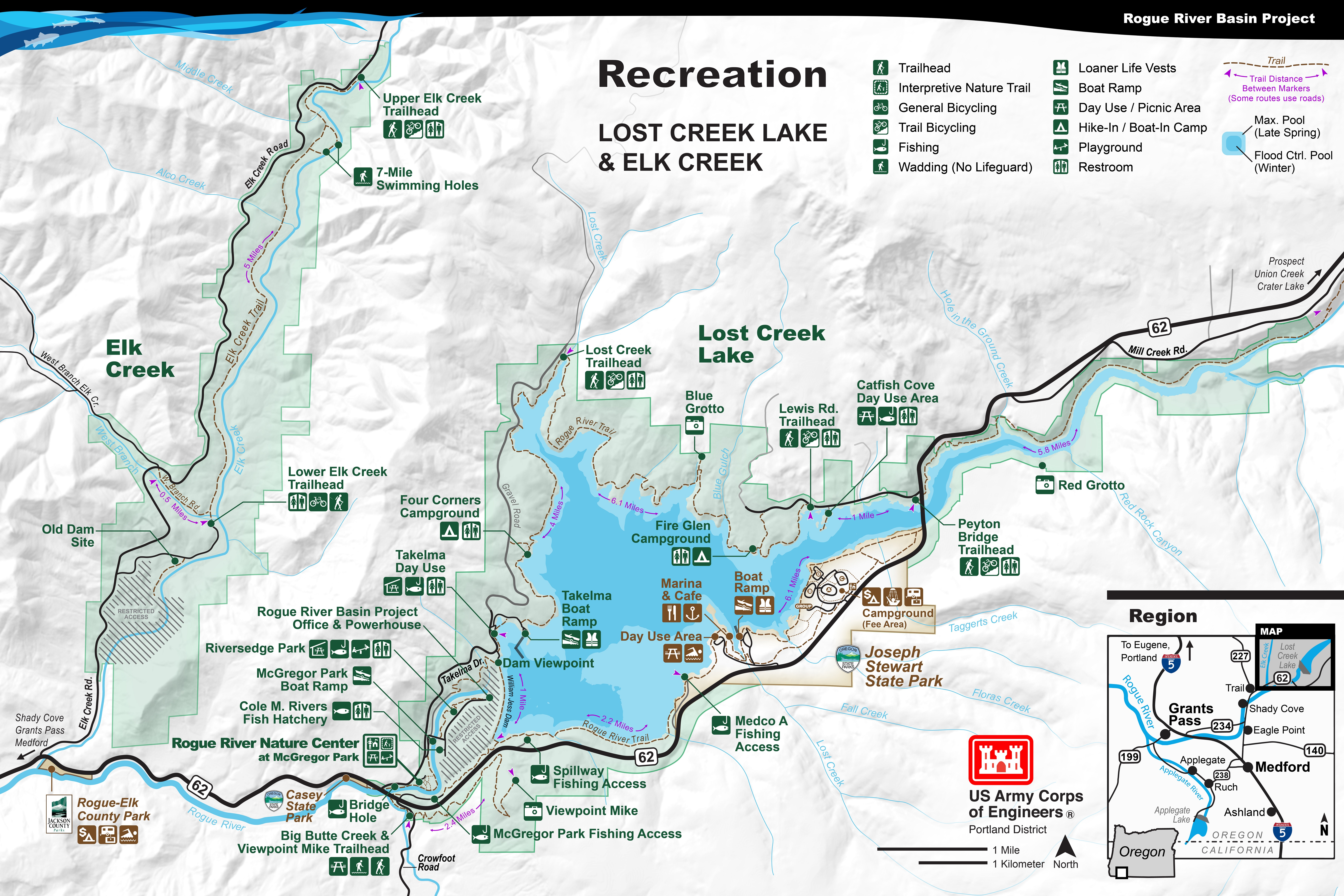 Recreation maps for Lost Creek Lake and Elk Creek areas managed by the Army Corps of Engineers.